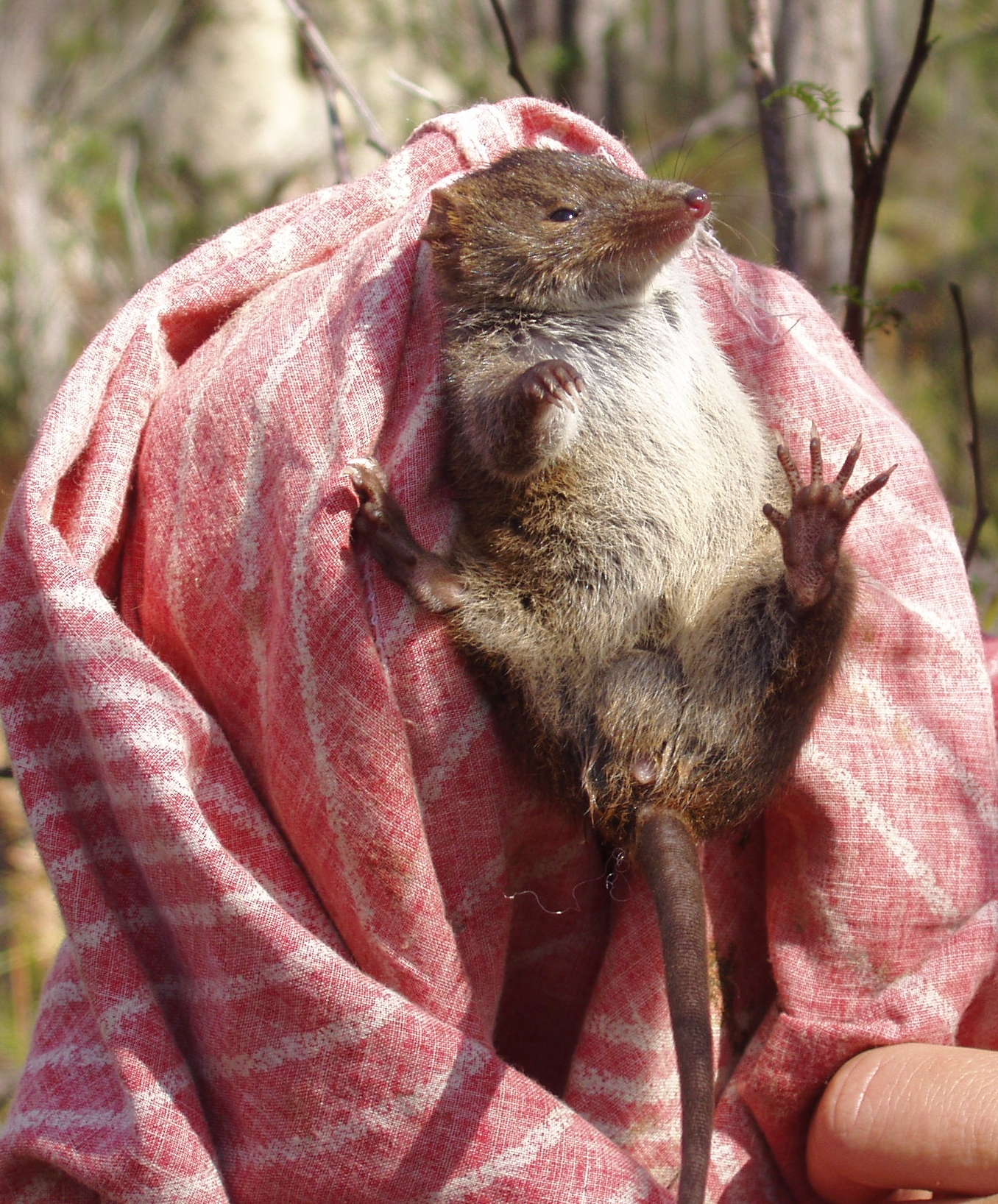 Antechinus mimetes, maennlich, Bild aus Cape Conran Coastal Park, Victoria